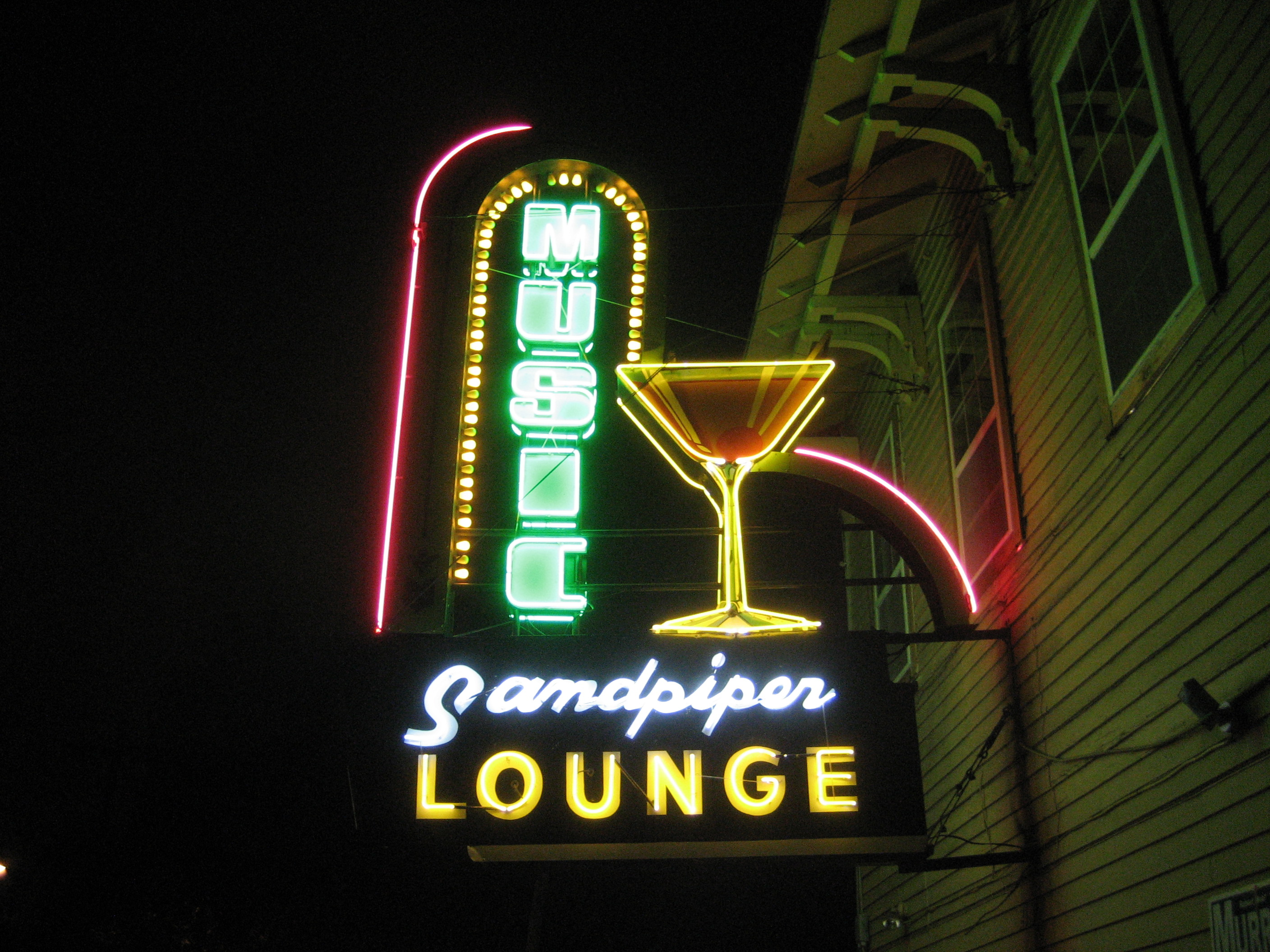 New Orleans: Neon sign for the Sandpiper at night, Louisiana Avenue.